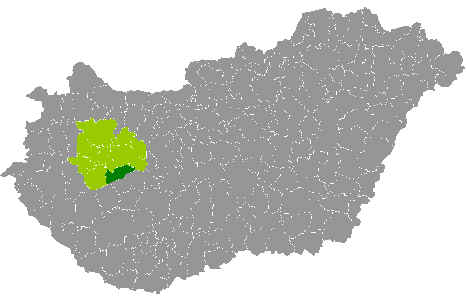 Location of Balatonfüred District, Veszprém, Hungary